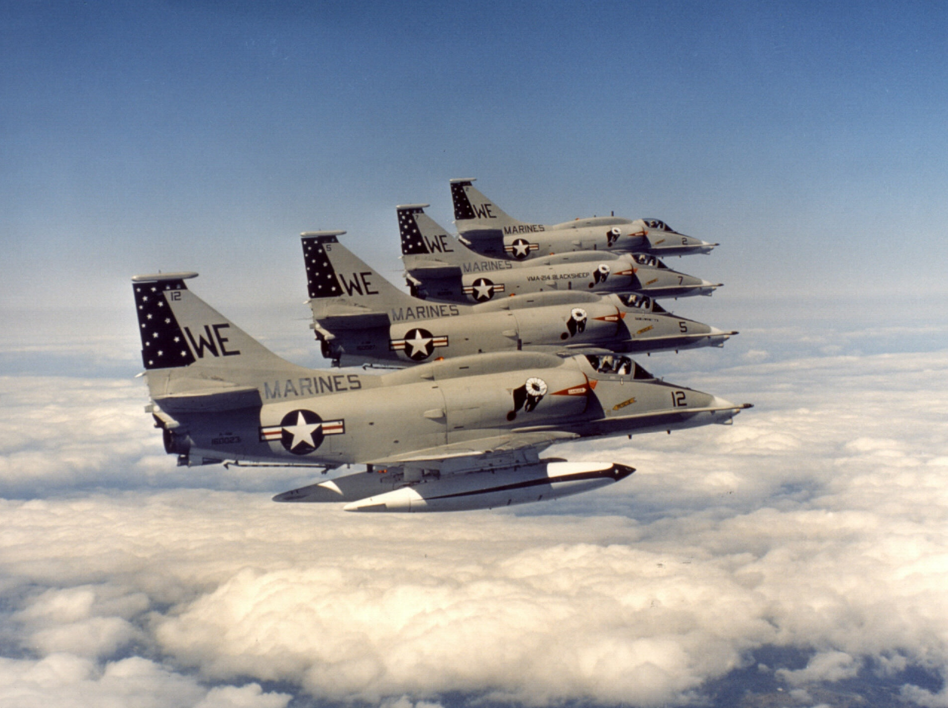 Four U.S. Marine Corps Douglas A-4M Skyhawk of Marine Attack Squadron 214 (VMA-214) "Black Sheep" in flight.